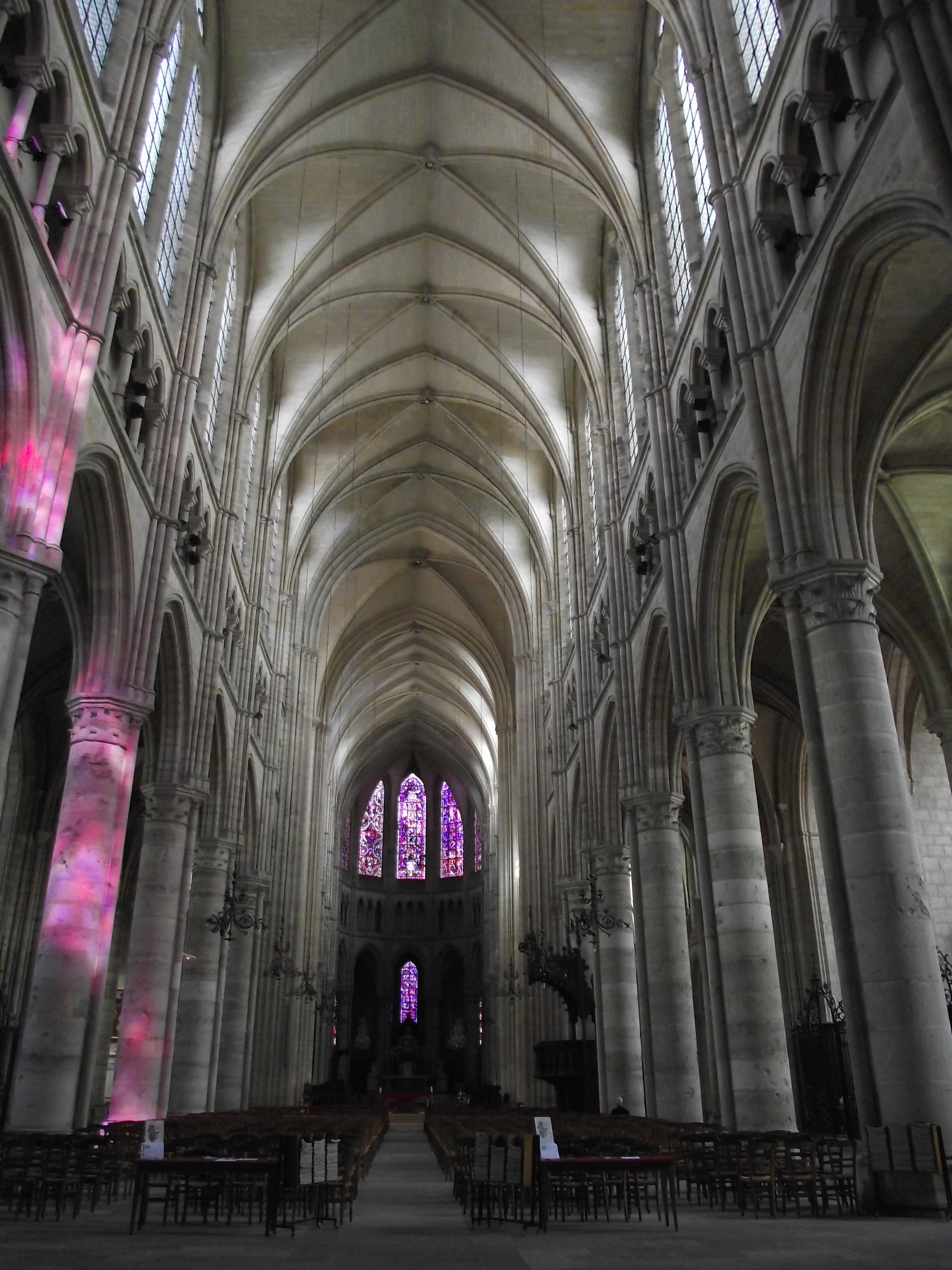 Soissons, Cathedral, XII-XIV Century